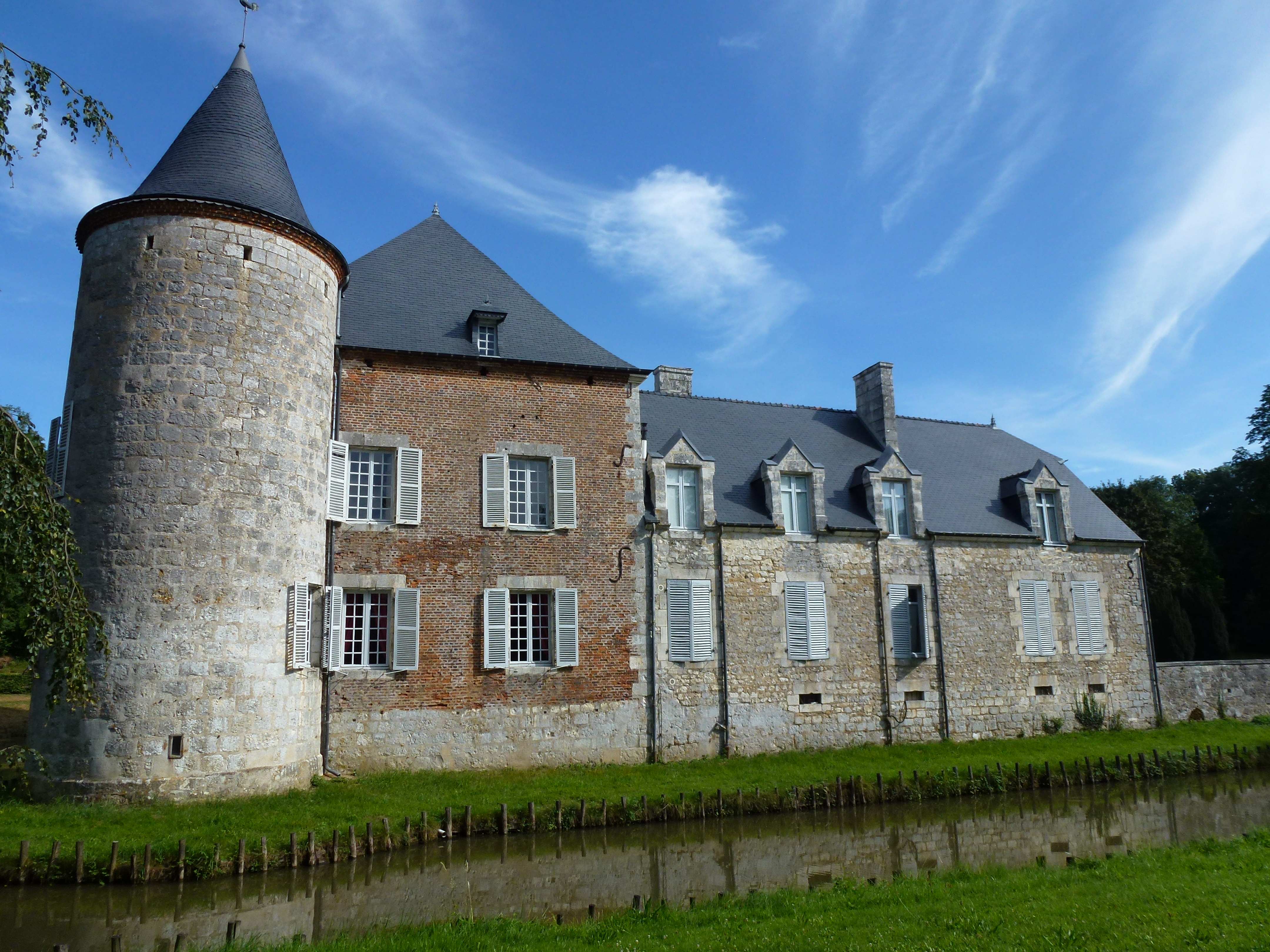 Rumigny (Ardennes) château Cour des Prés 01